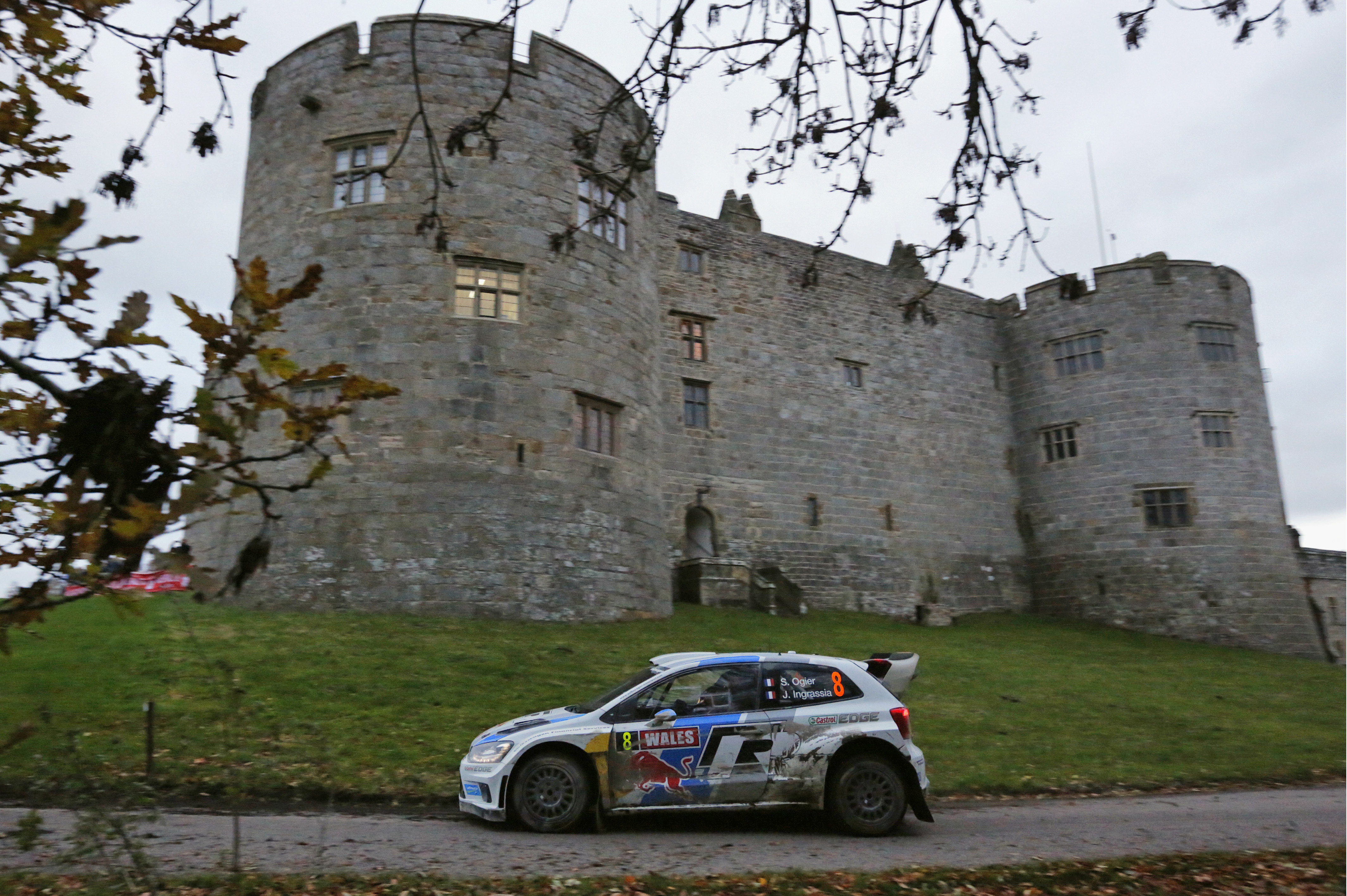 Sébastien Ogier and co-driver Julien Ingrassia in their VW Polo R WRC at the 2013 Wales Rally GB.